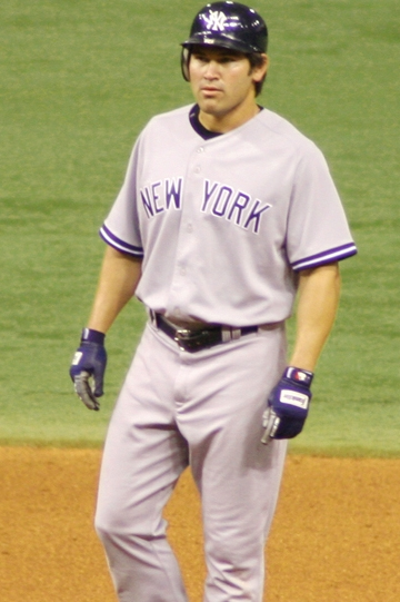 Cropped version of File:Damon on second.jpg.